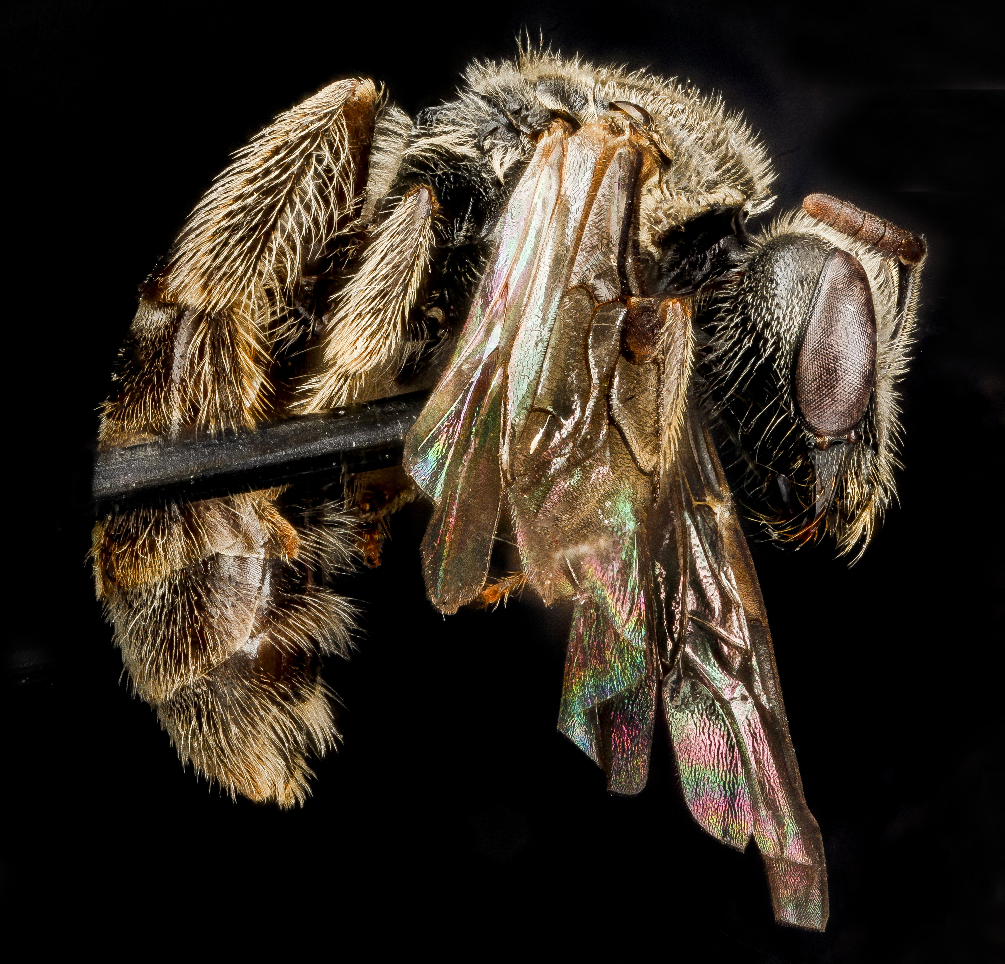 Lasioglossum oenotherae, female. Virginia, Page County.